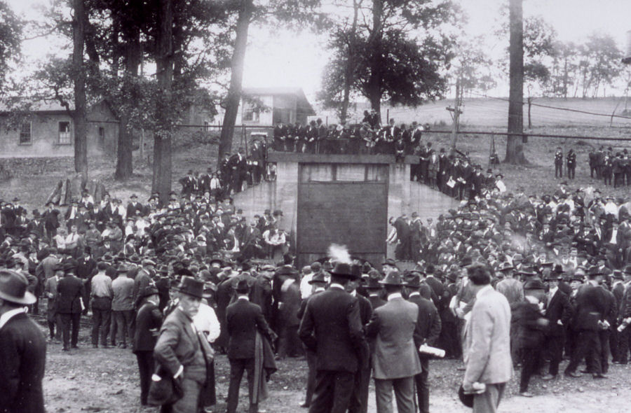 Dedication of the Experimental Mine, which opened in 1910, Bruceton, Pennsylvania. According to the CDC/NIOSH website: "In 1910, the newly created U.S. Bureau of Mines leased a 38-acre tract of land from the Pittsburgh Coal Co. in Bruceton, about 13 miles south of Pittsburgh. Here, a new mine, known as the Experimental Mine, was opened. One of the early experiments in the Experimental Mine demonstrated that coal dust by itself was capable of propagating an explosion even in the absence of any methane gas. This demonstration was contrary to the old belief widely held at the time that coal dust could not explode without gas. This view had led to the very dangerous and widespread practice of using loose coal dust in mines to pack explosives in boreholes, which had cost many thousands of lives. These early experiments clearly proved that such a practice was too hazardous to continue."[1]